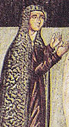 wife of Vasilios Hamados, detail from Arhangelos Michael church at Pedoulas